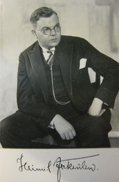 Heinrich Zerkaulen, german writer